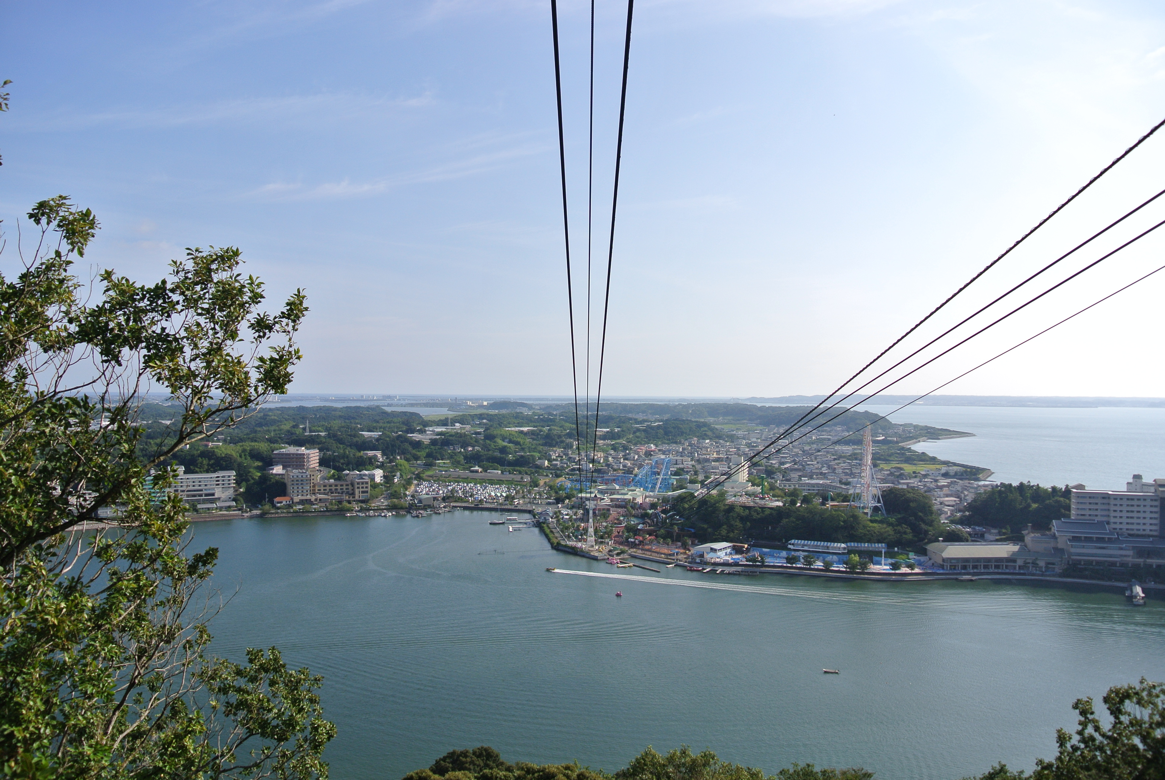 View from Kanzanji Ropeway.